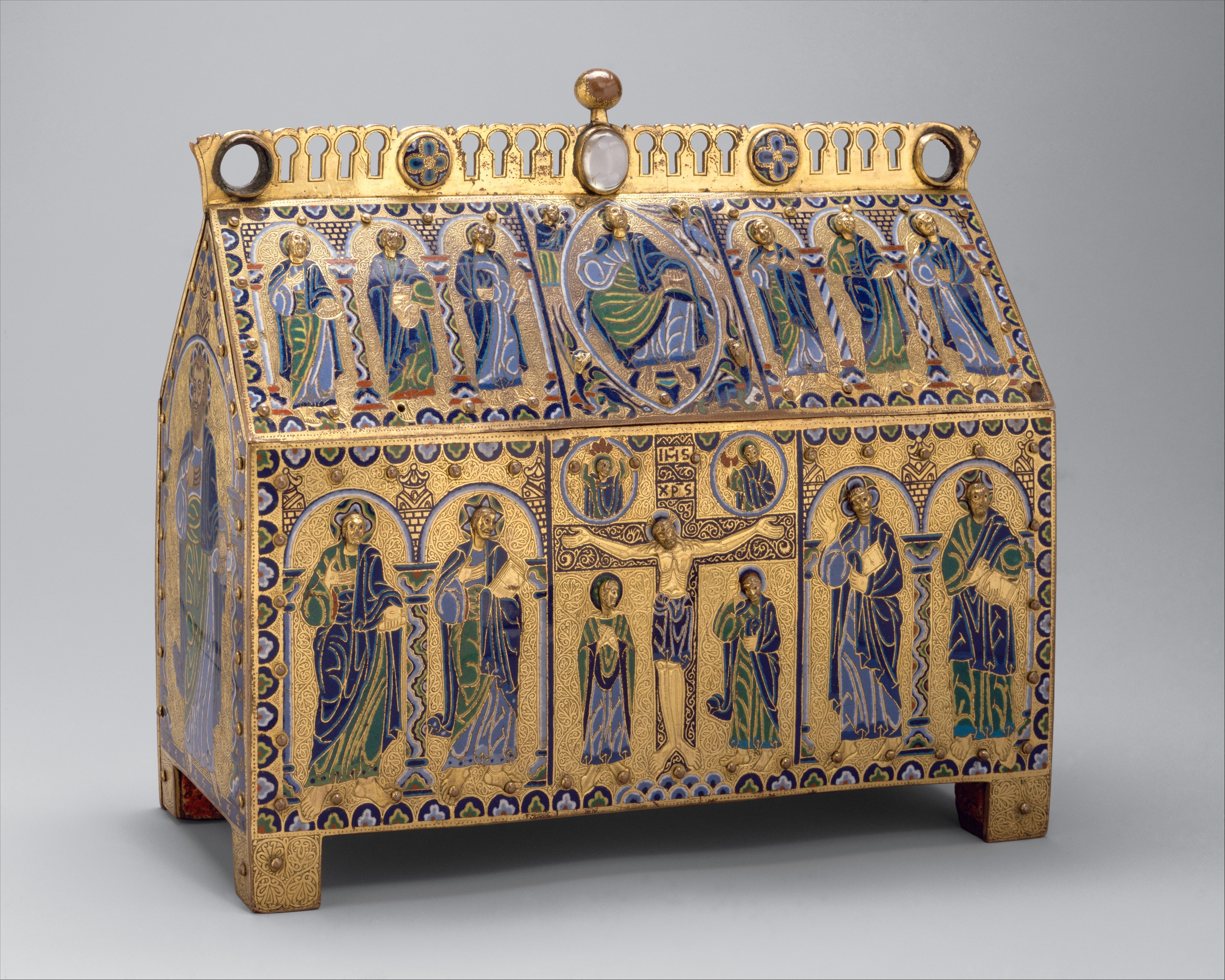 French; Chasse; Enamels-Champlevé